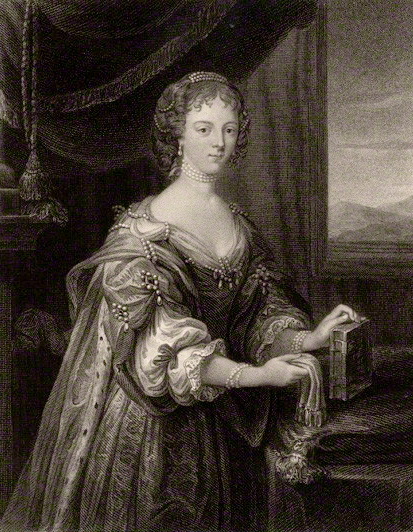 Engraving of Blanche Arundell (née Somerset), Lady Arundell of Wardour, based on a drawing by William Hilton